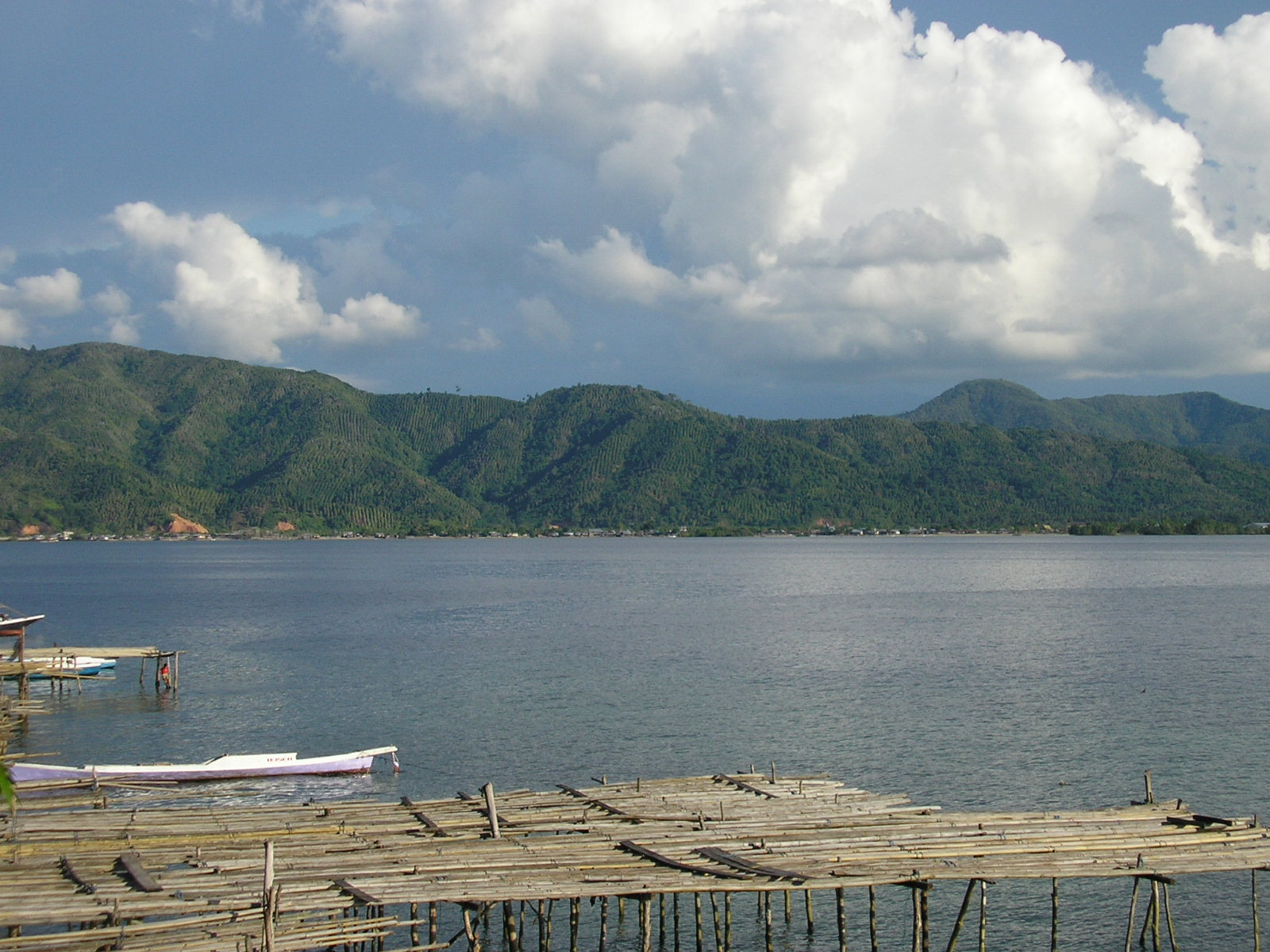 Mountains full of clove plantation in Toli-Toli, Central Sulawesi, Indonesia